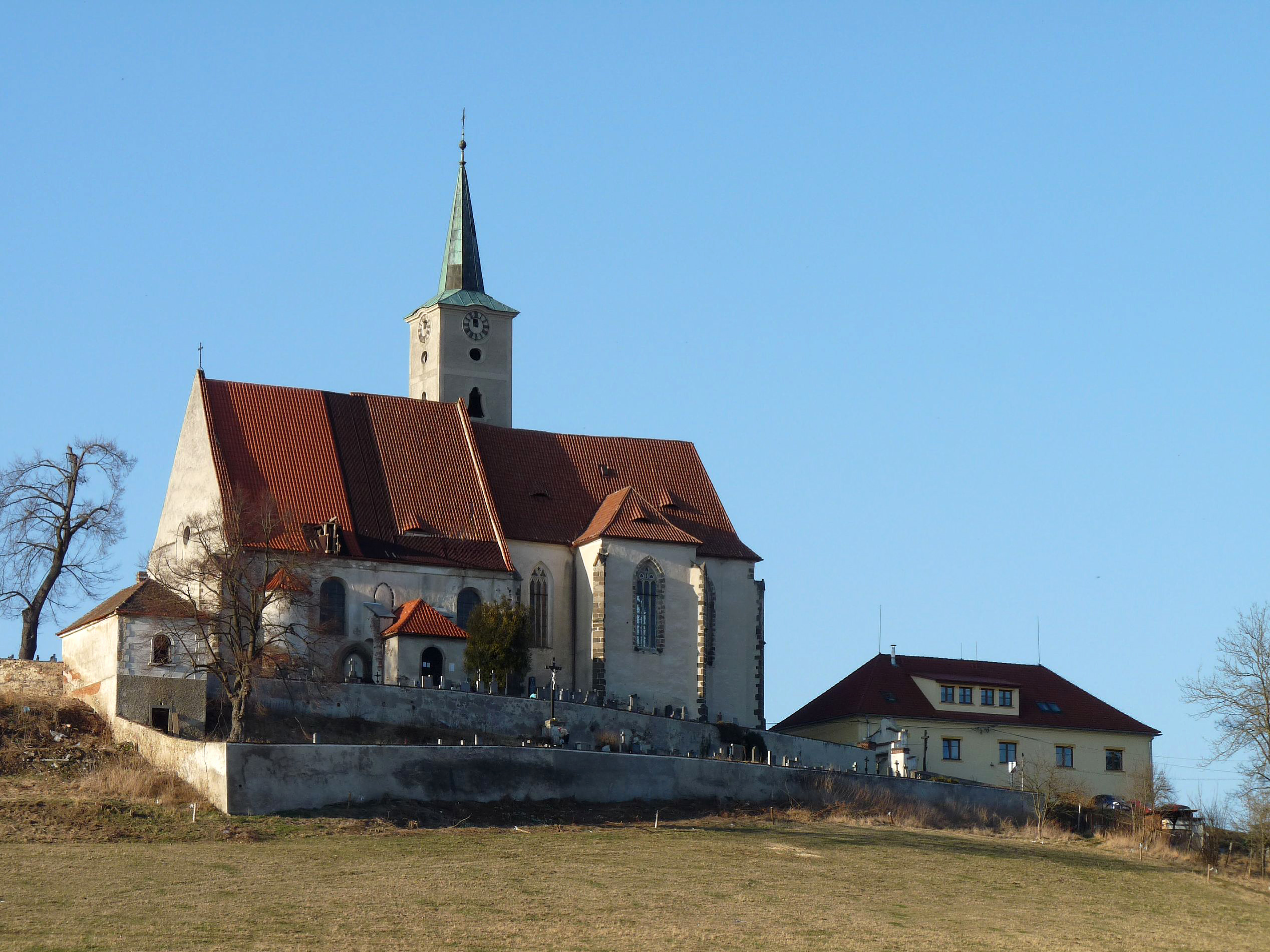 Church of the Assumption in the municipality of Nezamyslice, Klatovy District, Plzeň Region, Czech Republic and the former village school on the right